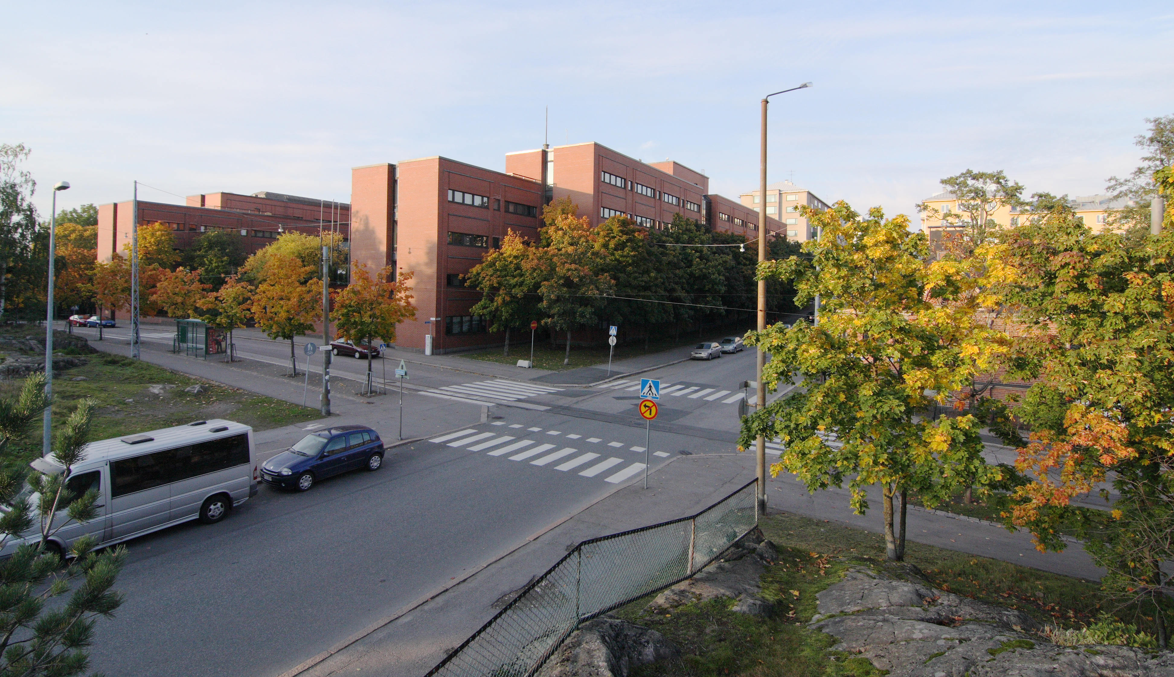 Kuntatalo in the district of Kallio, Helsinki